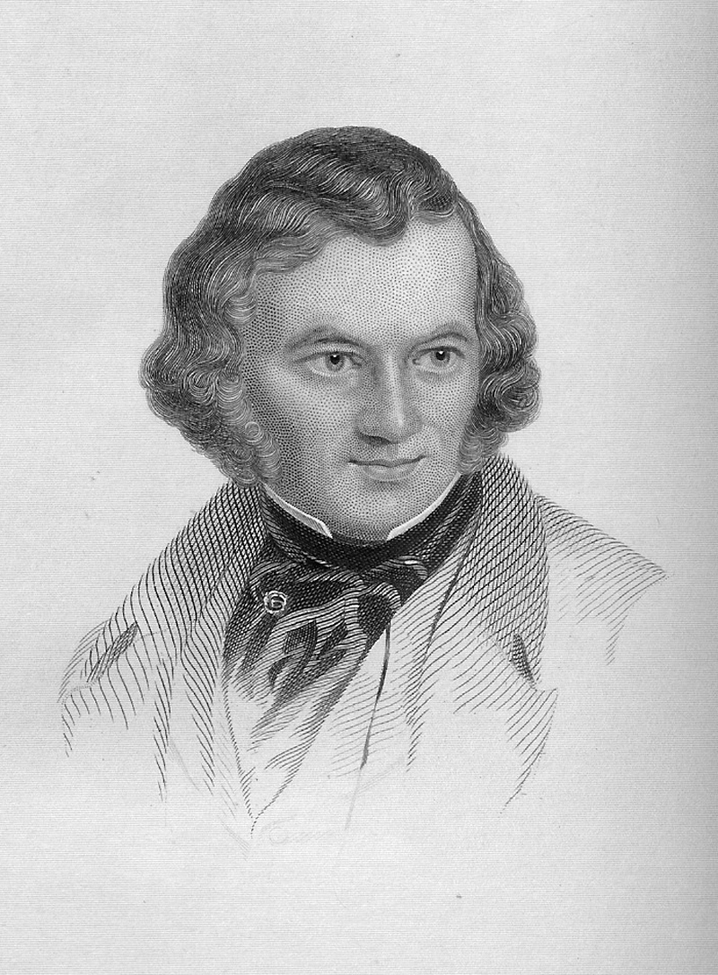 From the 1858 book Encyclopedia of Wit and Humor edited by William E. Burton. Both the book and photo are in the public domain. This image was cropped from the original scan.